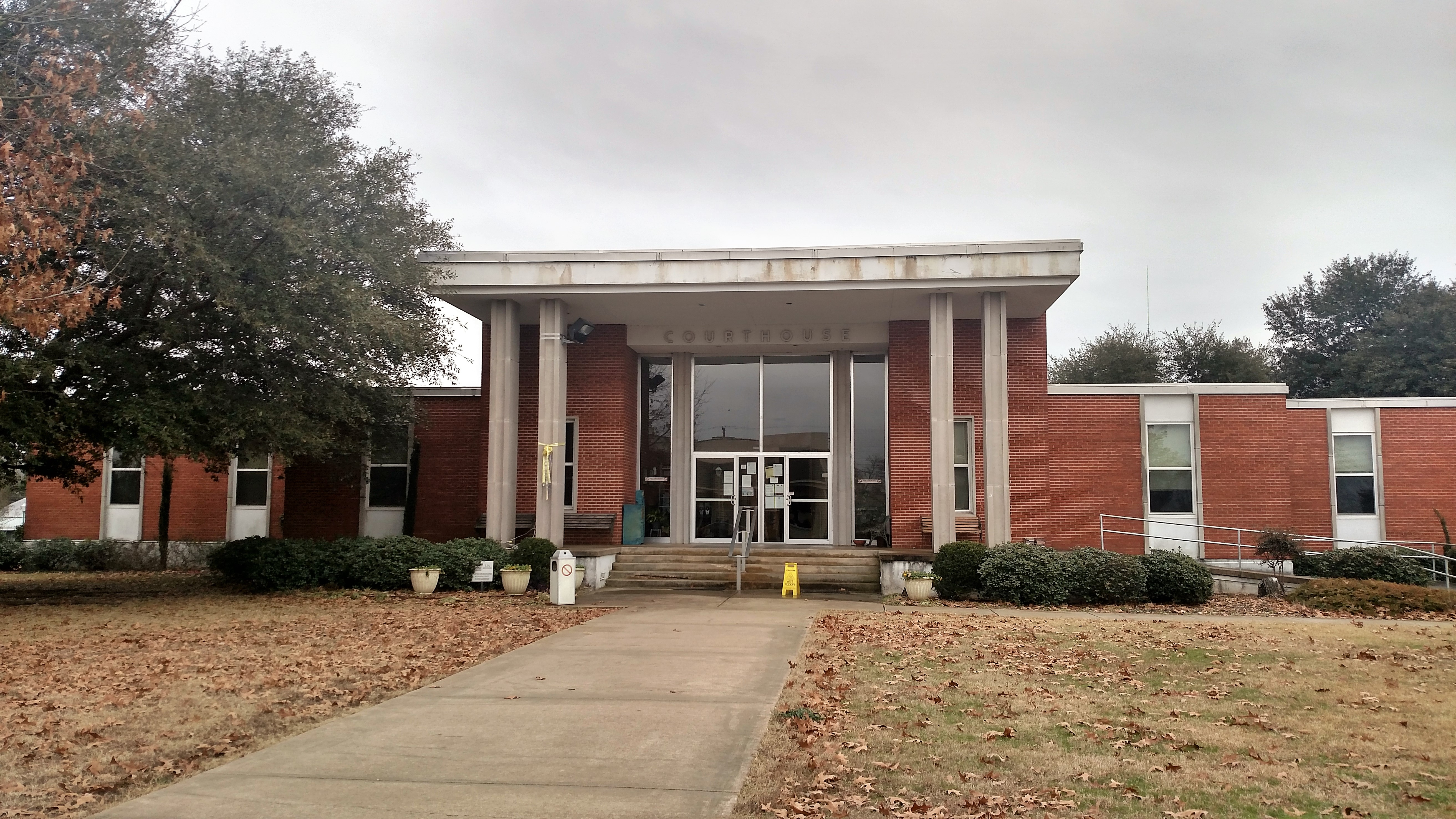 Courthouse in Prescott, AR, the seat of Nevada County government